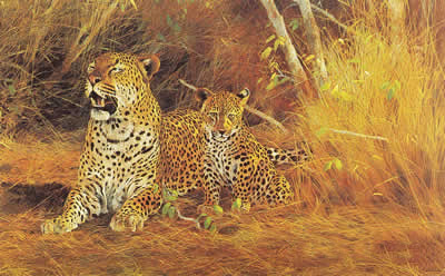 A painting of a leopard and cub by Kim Donaldson.